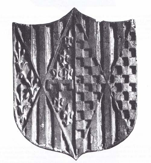 Arms of the House of Folch, Dukes of Cardona :es:Dukes of Cardona